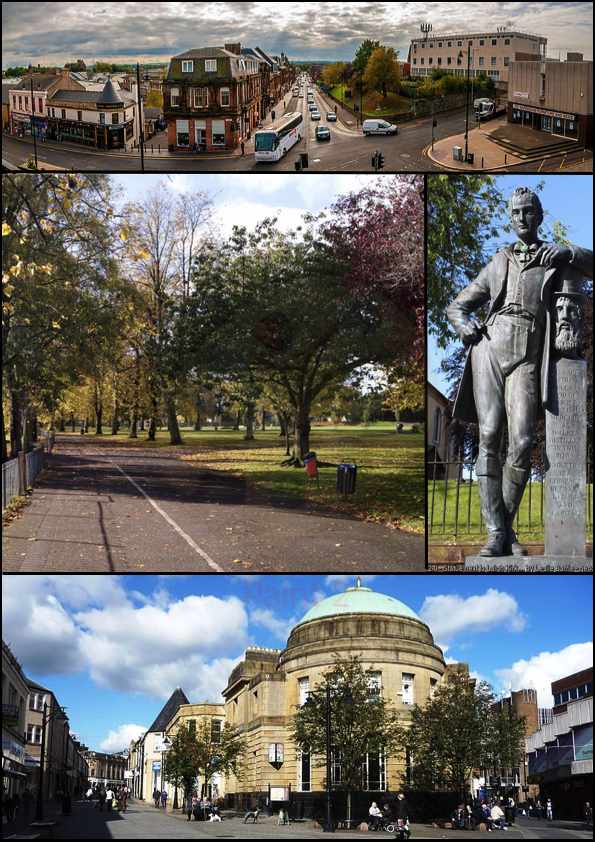 These images have previously been uploaded to the commons and have been added to this montage File:Train Station Panorama.jpg by Jiffler File:HowardPark.jpg by CalmanScott File:Johnnie Walker statue, Kilmarnock, Scotland.jpg by Leslie Barrie (Geograph) File:Kilmarnock, King Street.jpg by Showargueforlong